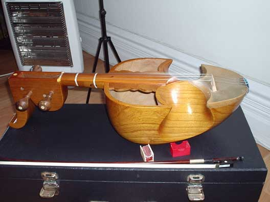 Picture of ghaychak (taken by me)